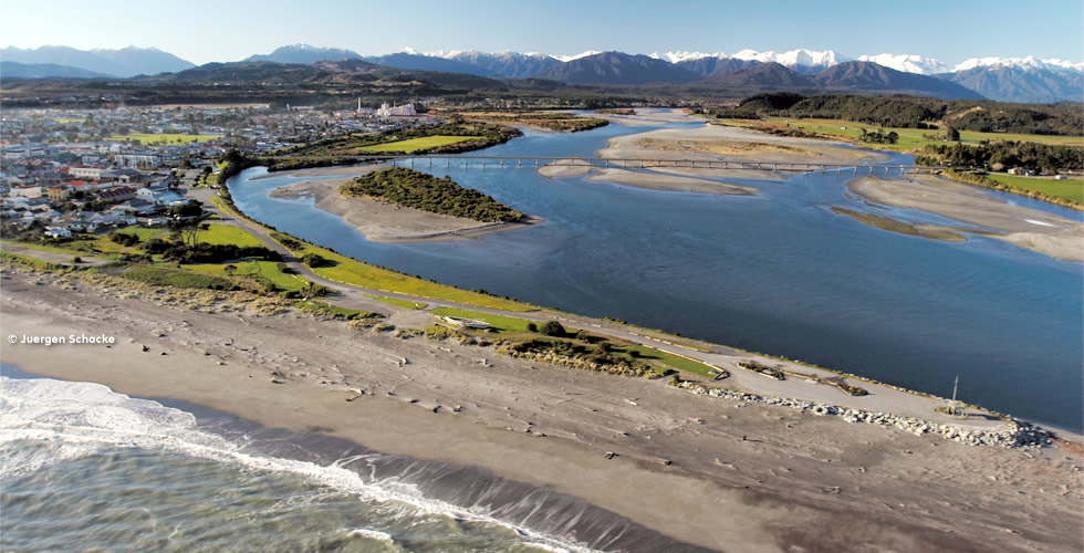 Hokitika